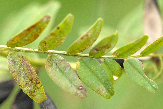 Ascochyta viciae from Commanster, Belgium. If you think this is a different taxon, please contact James Lindsey.